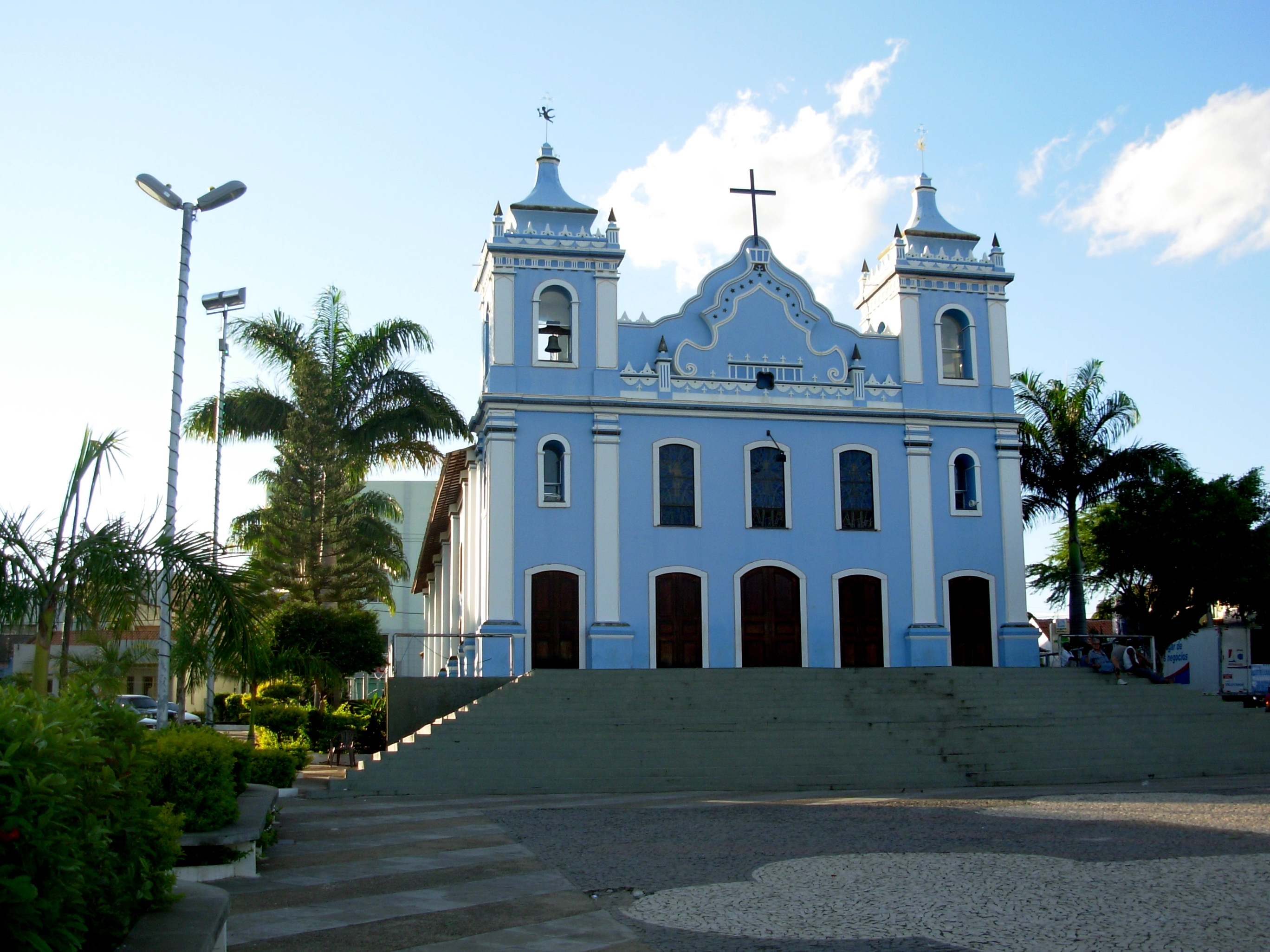 The first and principal Church of Brumado town - Bahia, Brazil